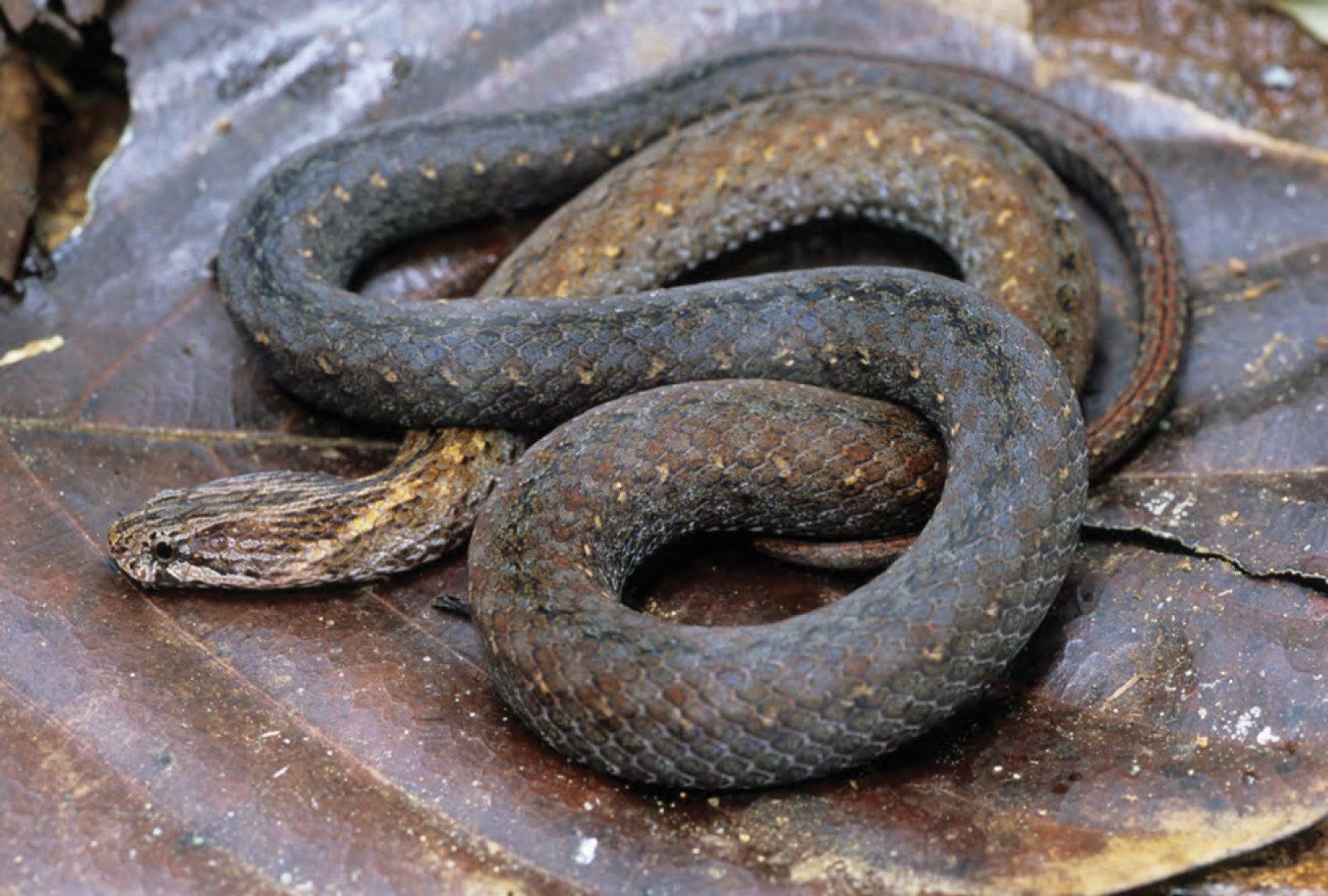 Cyclocorus lineatus lineatus (KU 326690) from Barangay Dibuluan, San Mariano. Photo: ACD.